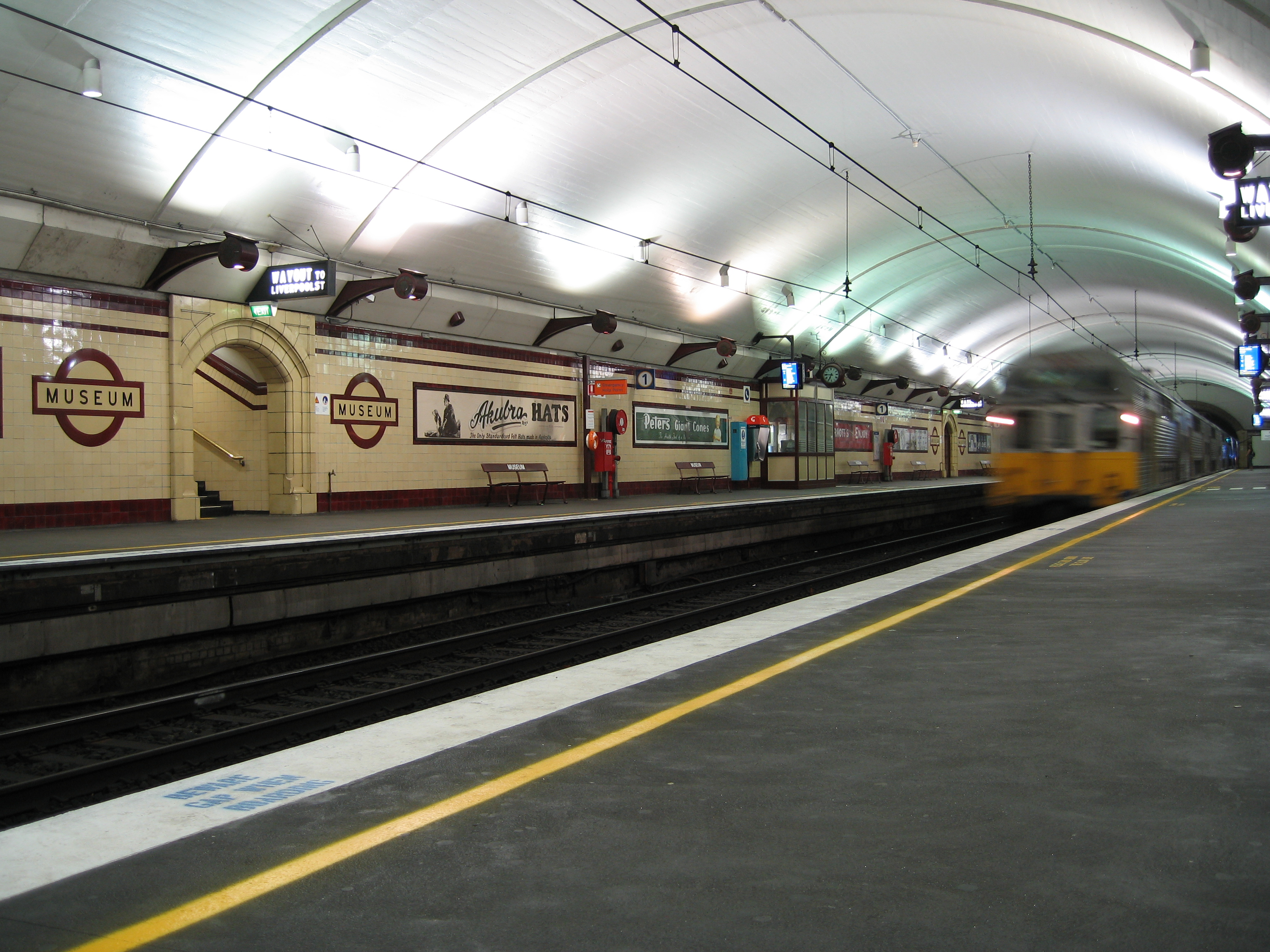 Museum Station, Hyde Park, Sydney, Australia.